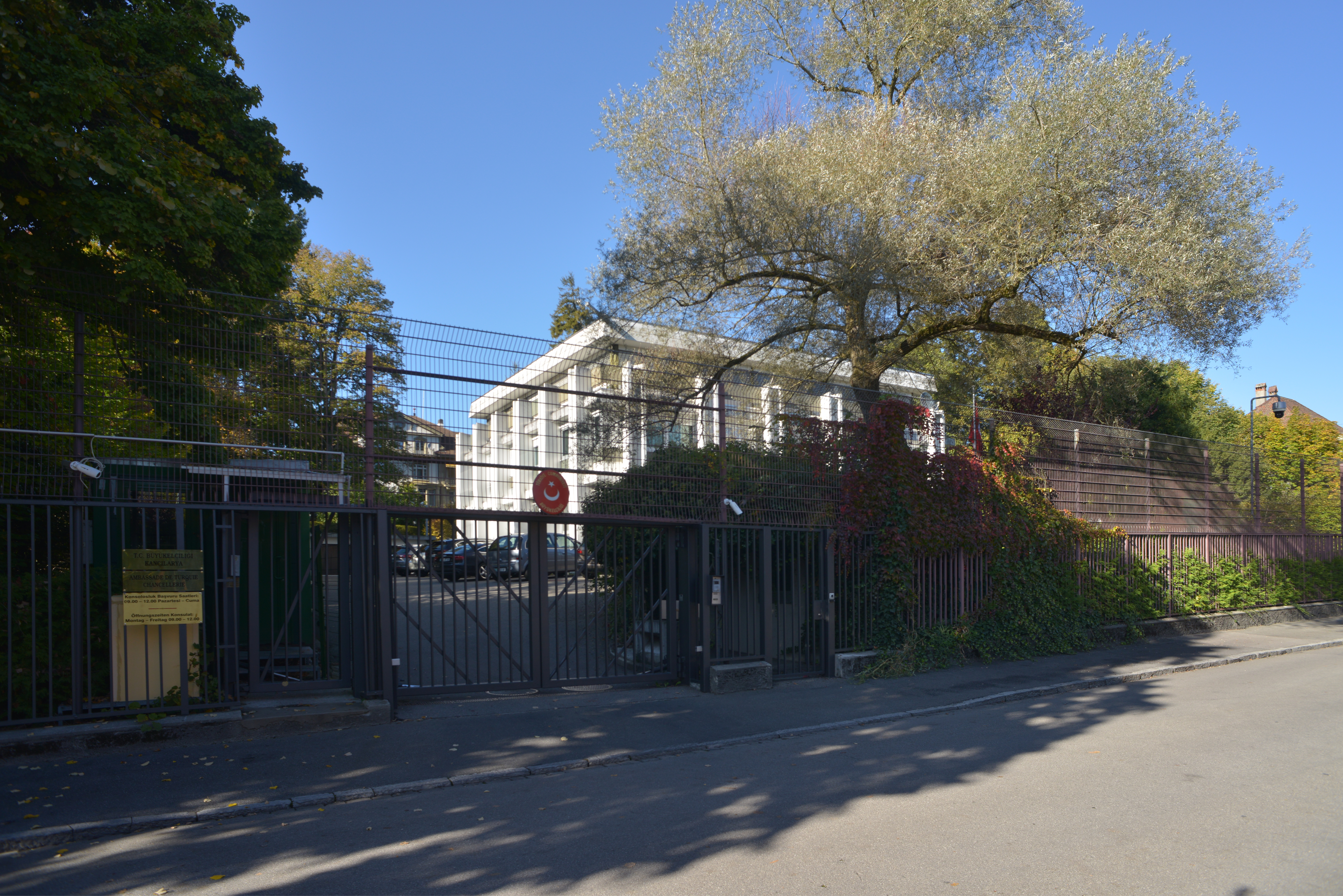 Bern, Lombachweg 33